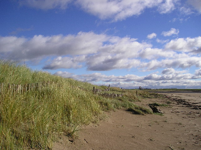 Dunes. Sand Dunes on Stevenston Beach looking east towards the beach park.